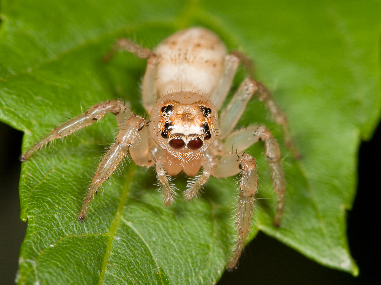 Adult female Thiodina sylvana jumping spider found at Shelby Park in Nashville, Tennessee. Body length: 10.2 mm.